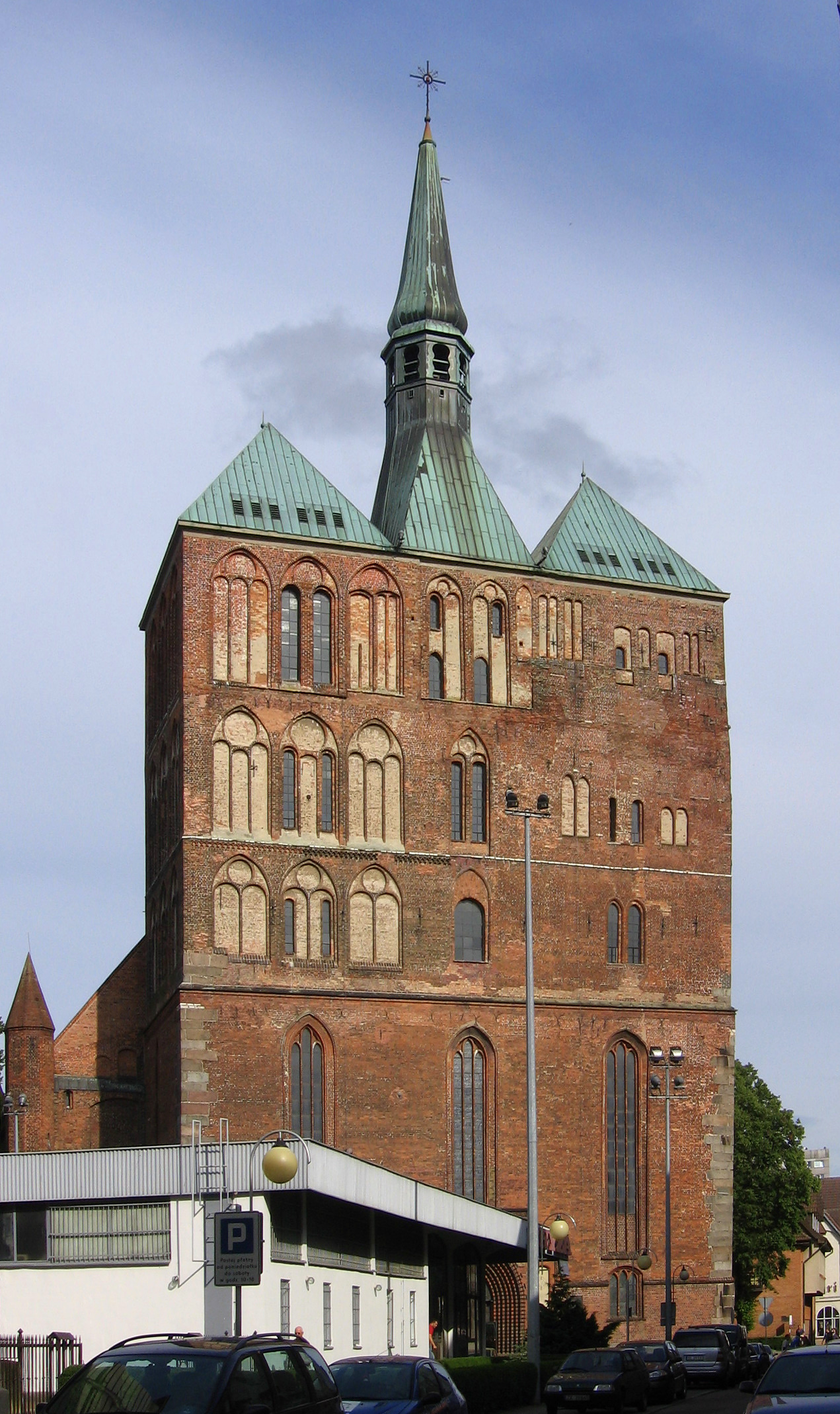 Saint Mary's the Assumption cathedral Basilica in Kołobrzeg, Poland